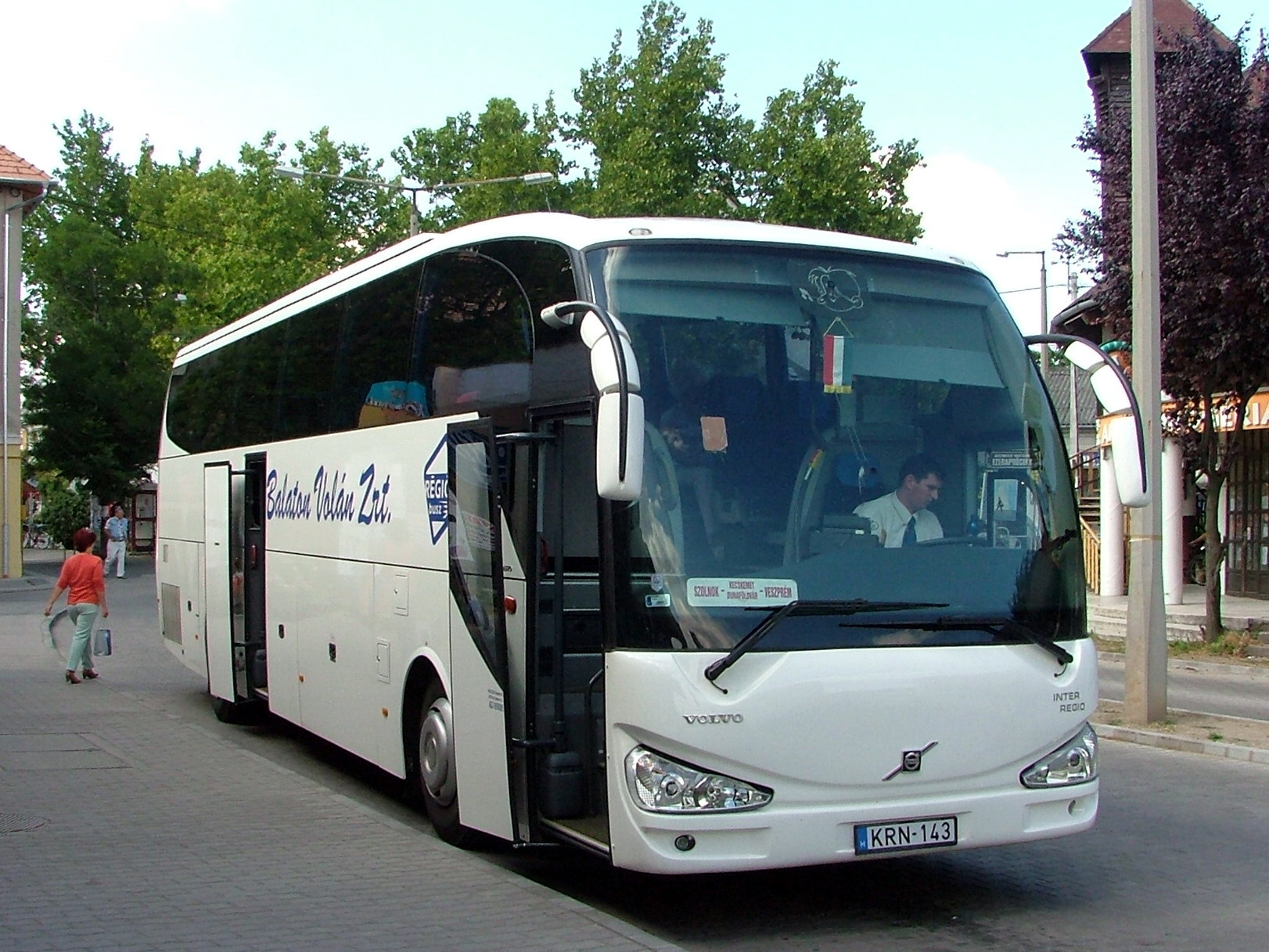 Alfabusz InterRegio GT at the Dunaföldvár bus station 2007. júl. 11.